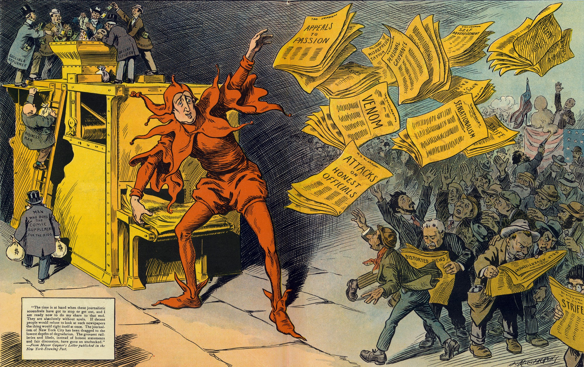 The Yellow Press, by L.M. Glackens. Illustration shows William Randolph Hearst as a jester tossing newspapers with headlines such as "Appeals to Passion, Venom, Sensationalism, Attacks on Honest Officials, Strife, Distorted News, Personal Grievance, [and] Misrepresentation" to a crowd of eager readers, among them an anarchist assassinating a politician speaking from a platform draped with American flags; on the left, men labeled "Man who buys the comic supplement for the kids, Businessman, Gullible Reformer, Advertiser, and Decent Citizen" carry bags of money that they dump into Hearst's printing press. Includes note: "The time is at hand when these journalistic scoundrels have got to stop or get out, and I am ready now to do my share to that end. They are absolutely without souls. If decent people would refuse to look at such newspapers the whole thing would right itself at once. The journalism of New York City has been dragged to the lowest depths of degradation. The grossest railleries and libels, instead of honest statements and fair discussion, have gone unchecked."-- From Mayor Gaynor's letter published in the New York Evening Post.